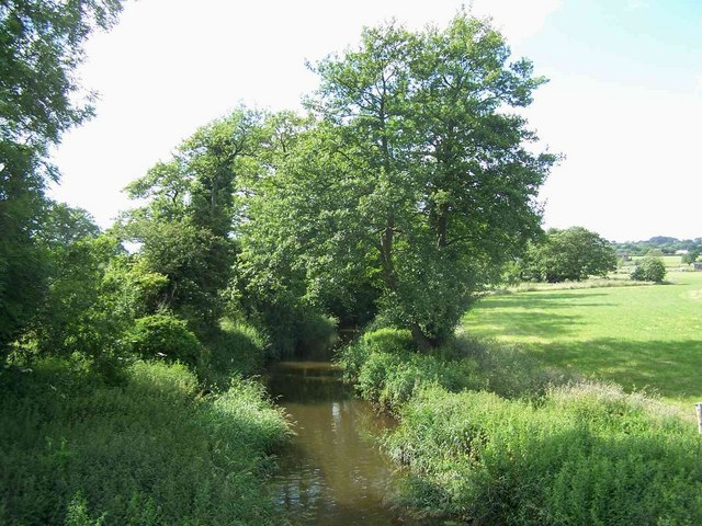 River Blithe Looking North